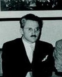 Werner Fenchel (left), Alexander D. Alexandrov, Herbert Busemann, Børge Jessen, 1954